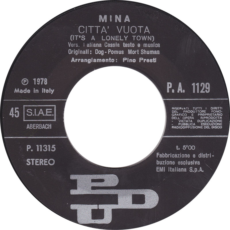 Label of the remake of Mina Mazzini's song "città Vuota"